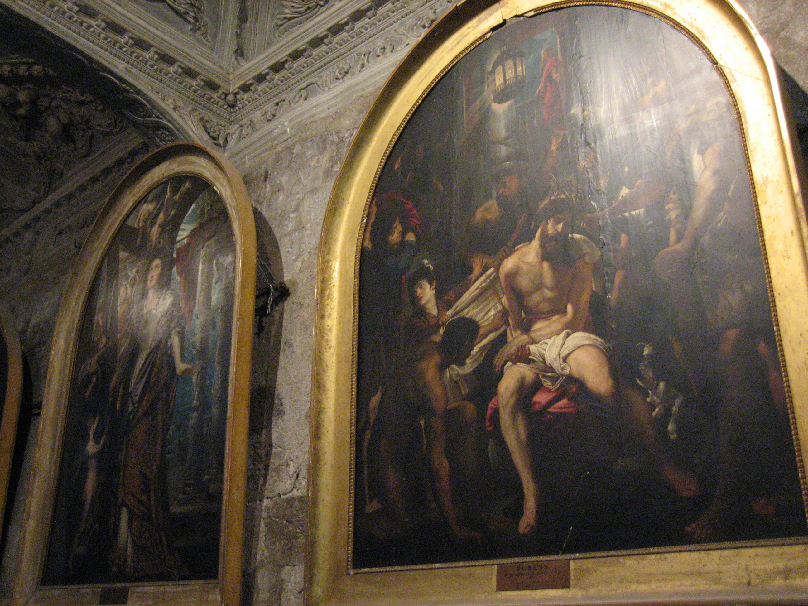 Cathedral of Grasse (France)